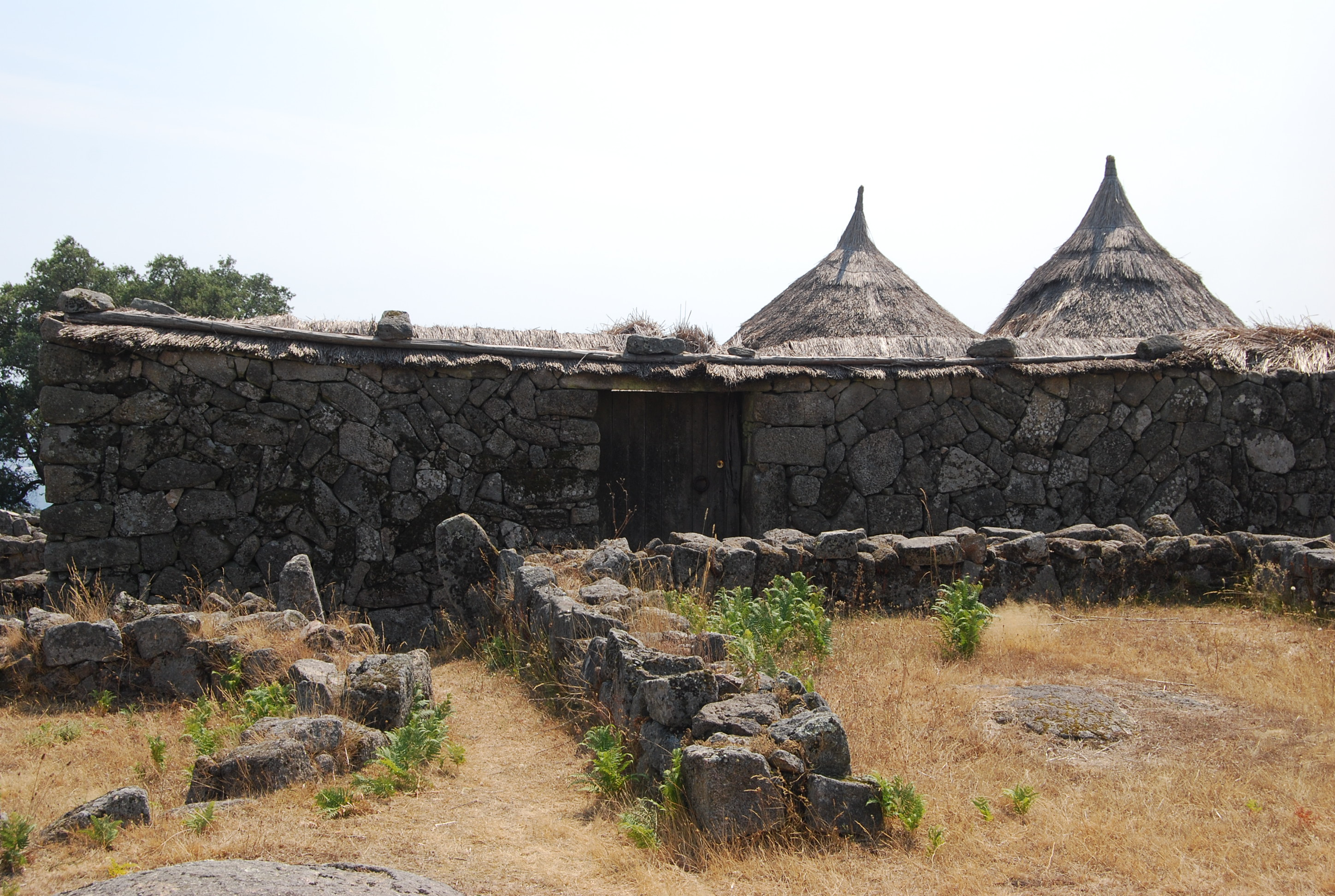 This file was uploaded for Wiki Loves Monuments in Portugal with the unique identifier 70495.